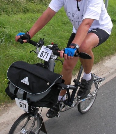 Bordeaux-Paris on a Brompton in less than 60 hours.